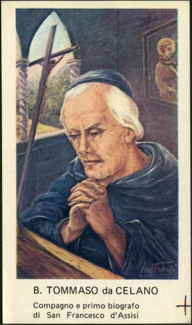 Tommaso da Celano (1200 ca - 1265 ca)